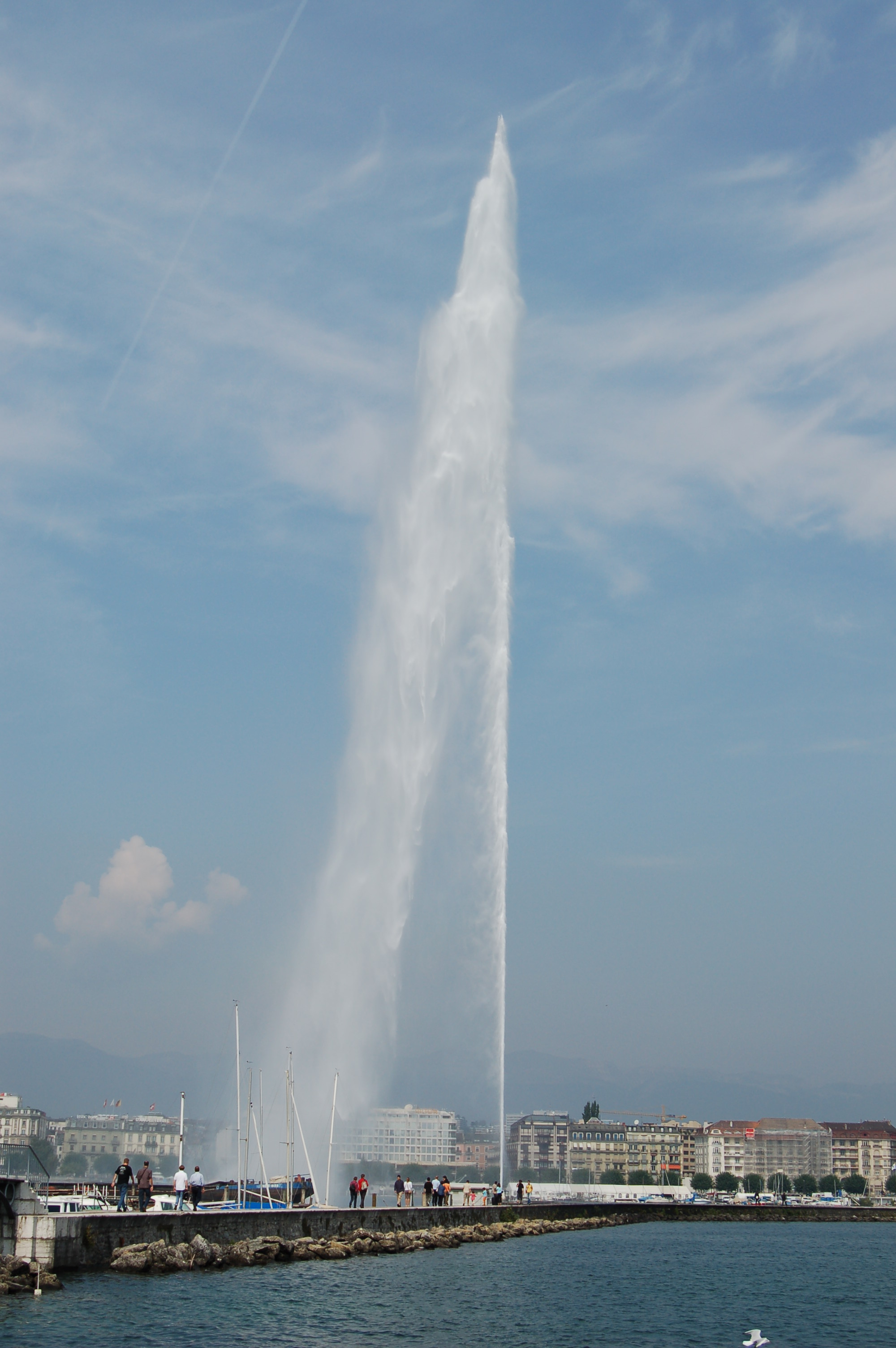 Geneva